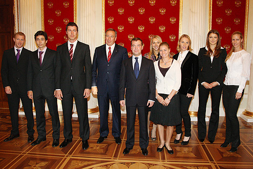 THE KREMLIN, MOSCOW. With members of the Russian national tennis teams.